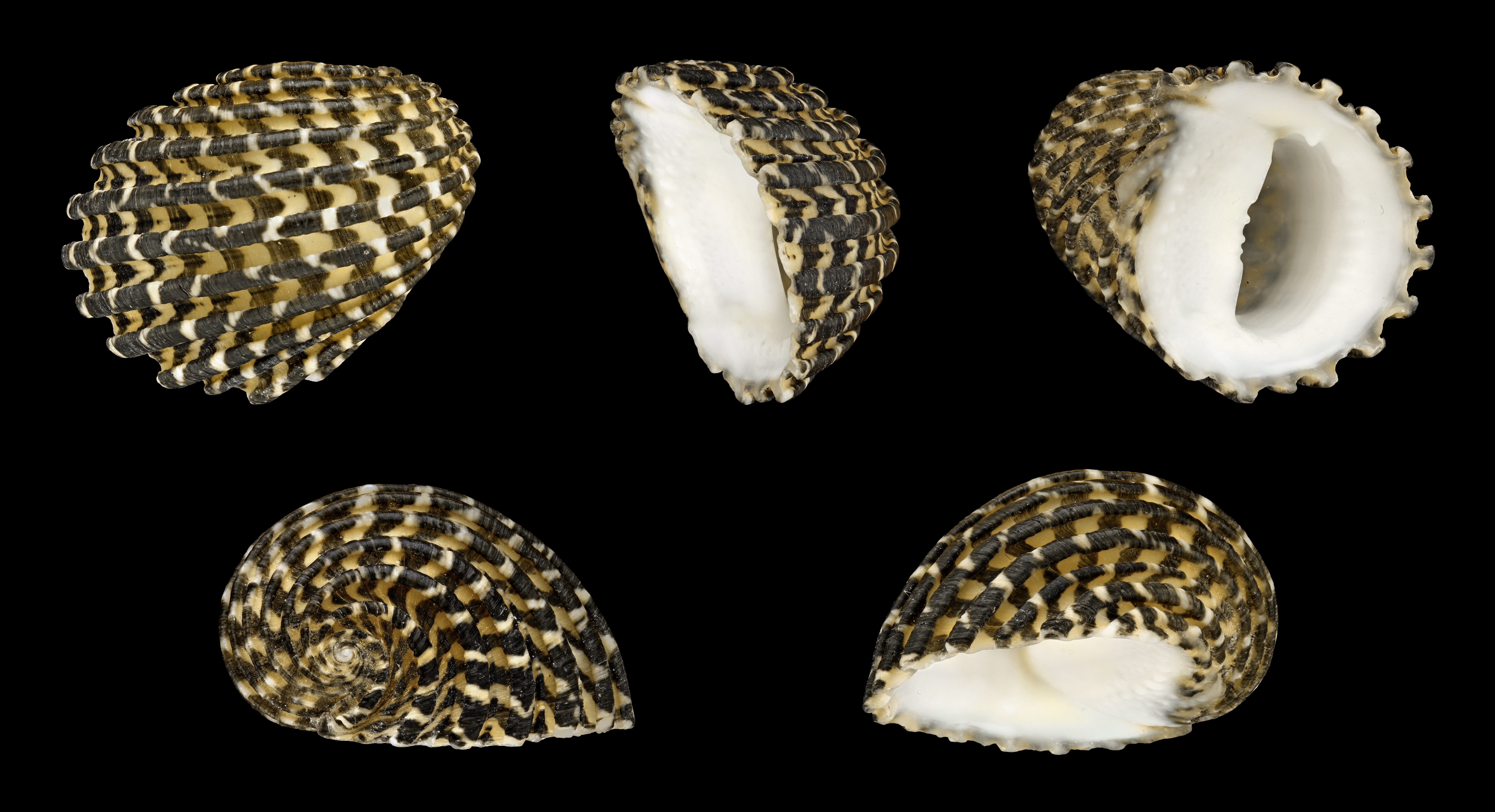 Snake-skin Nerite; Length 2.7 cm; Originating from Bohol, Philippines; Shell of own collection, therefore not geocoded. Dorsal, lateral (right side), ventral, back, and front view.